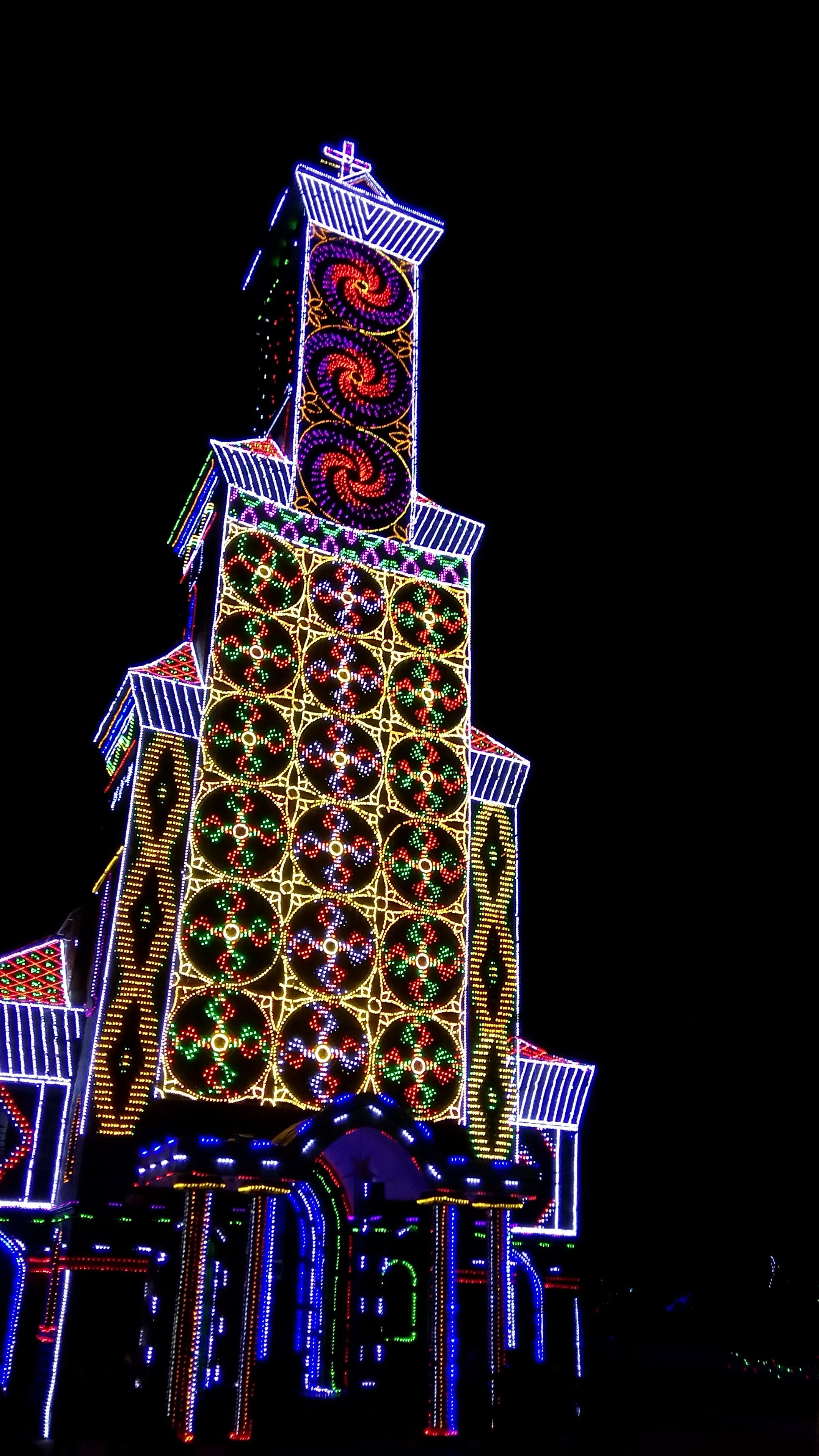 Amaravila CSI church illuminated at the time of Christamas celebrations, 2016